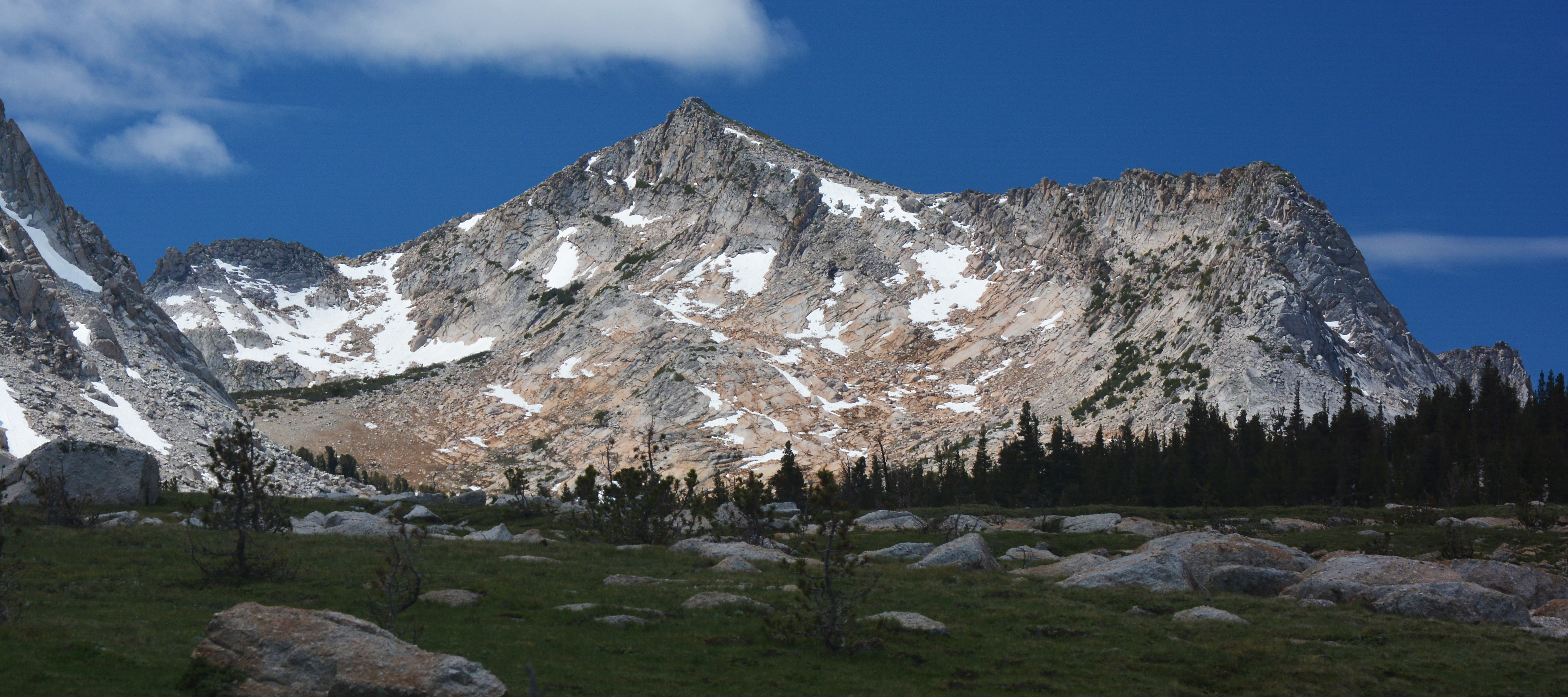 At 11,516 feet, Vogelsang Peak towers above the surrounding landscape in Yosemite National Park. Photo taken from the Rafferty Creek Valley, downstream from Tuolumne Pass.